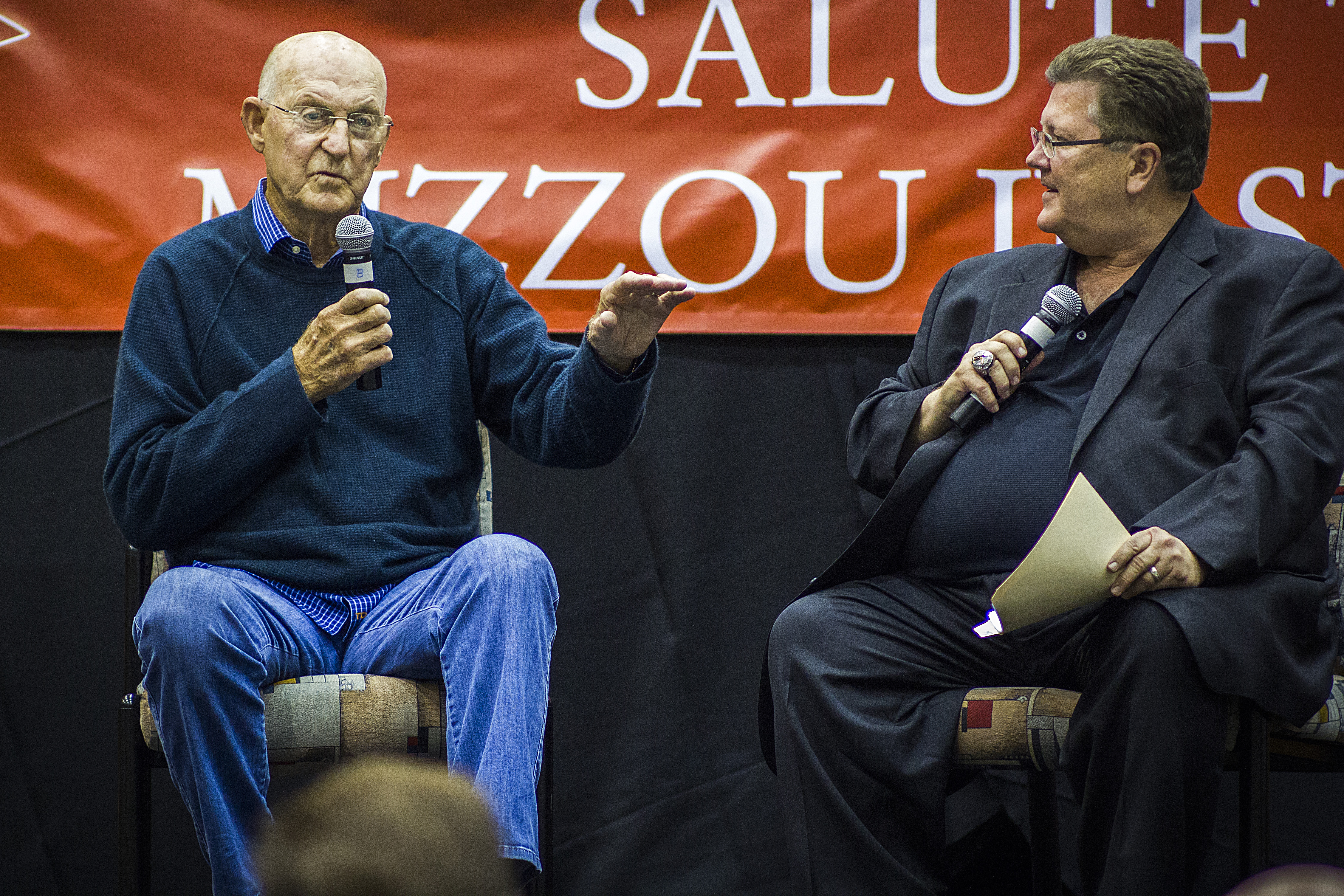 Mizzou Basketball Coach Norm Stewart being interviewed by Announcer John Rooney during Stewarts induction to the St.Louis Sports Hall of Fame.